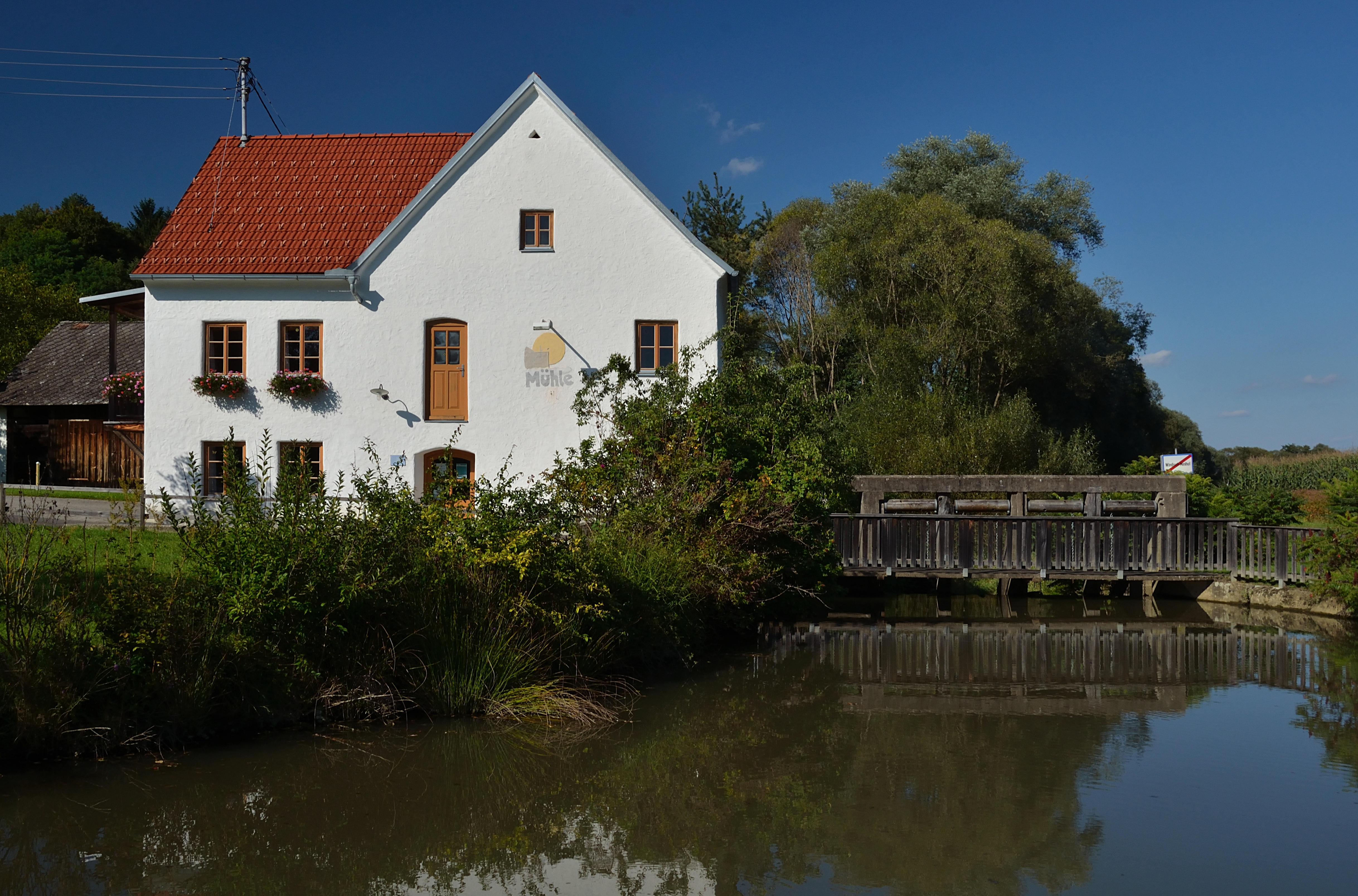 Jost mill Windisch-Minihof